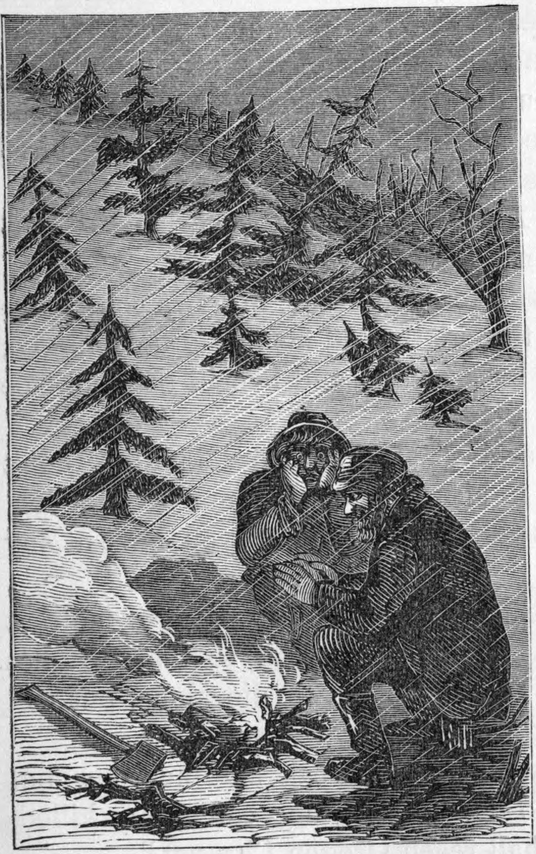 The Road-Hunters